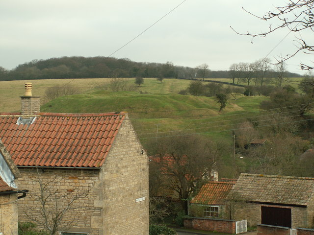 Overlooking the castle mound View from the bus stop in the village, at the top of heathcote road.